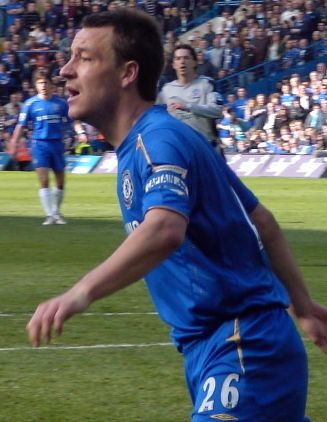 John Terry during a match vs Everton at Stamford Bridge in Summer 2006.